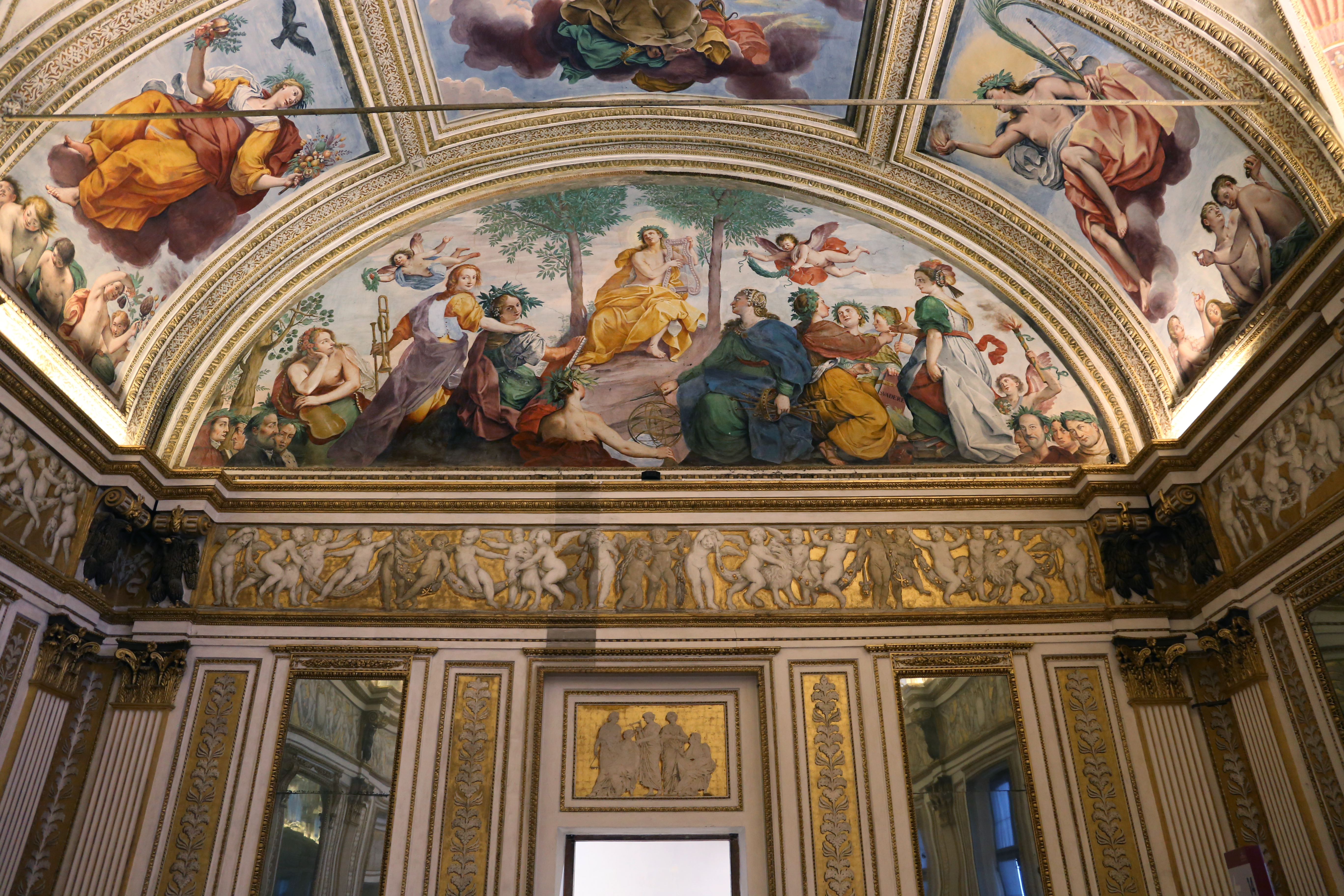 Sala degli specchi, Palazzo Ducale, Mantua